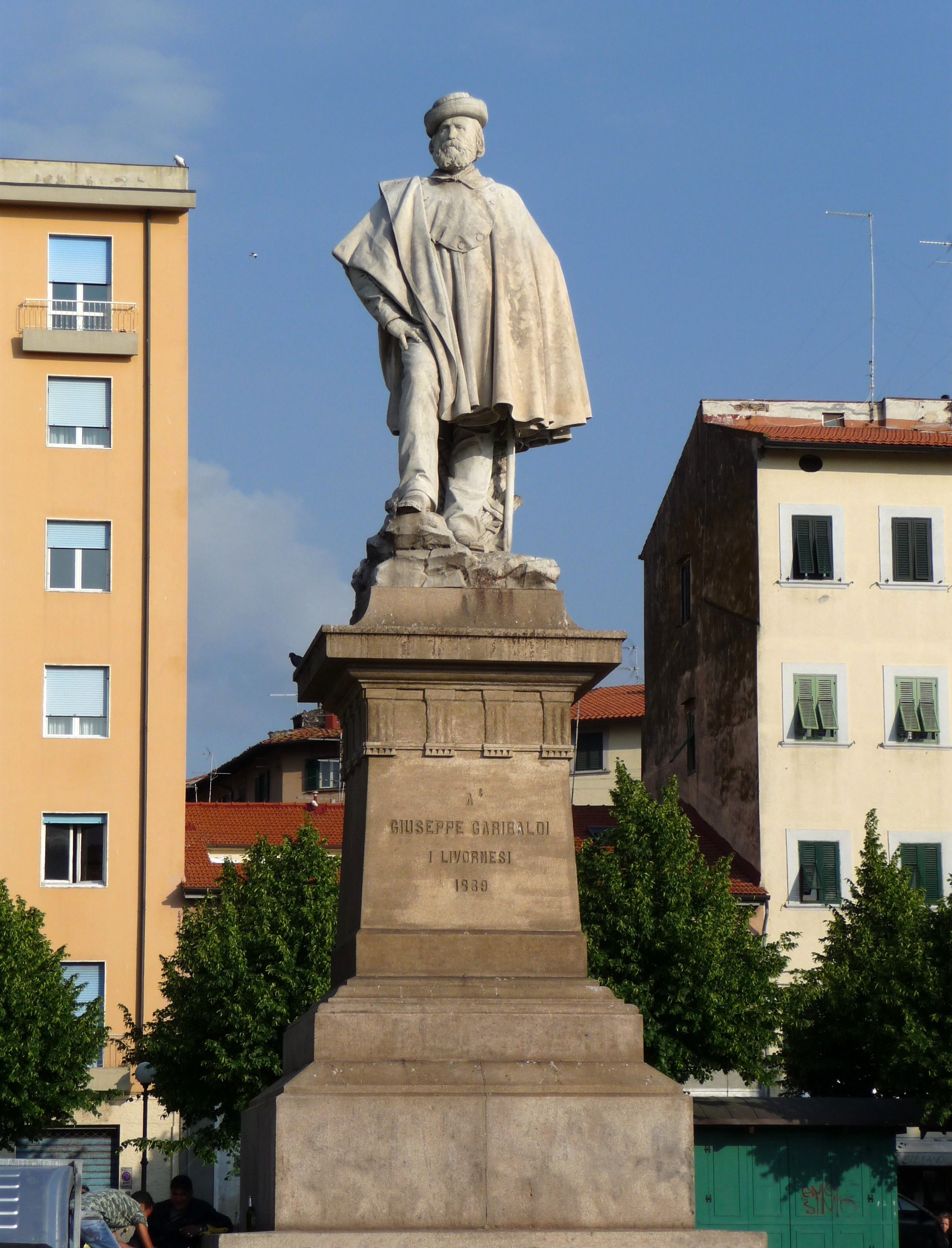 Monument for Giuseppe Garibaldi, Piazza Garibaldi, Livorno, Italy Work by Augusto Rivalta (1837–1925)